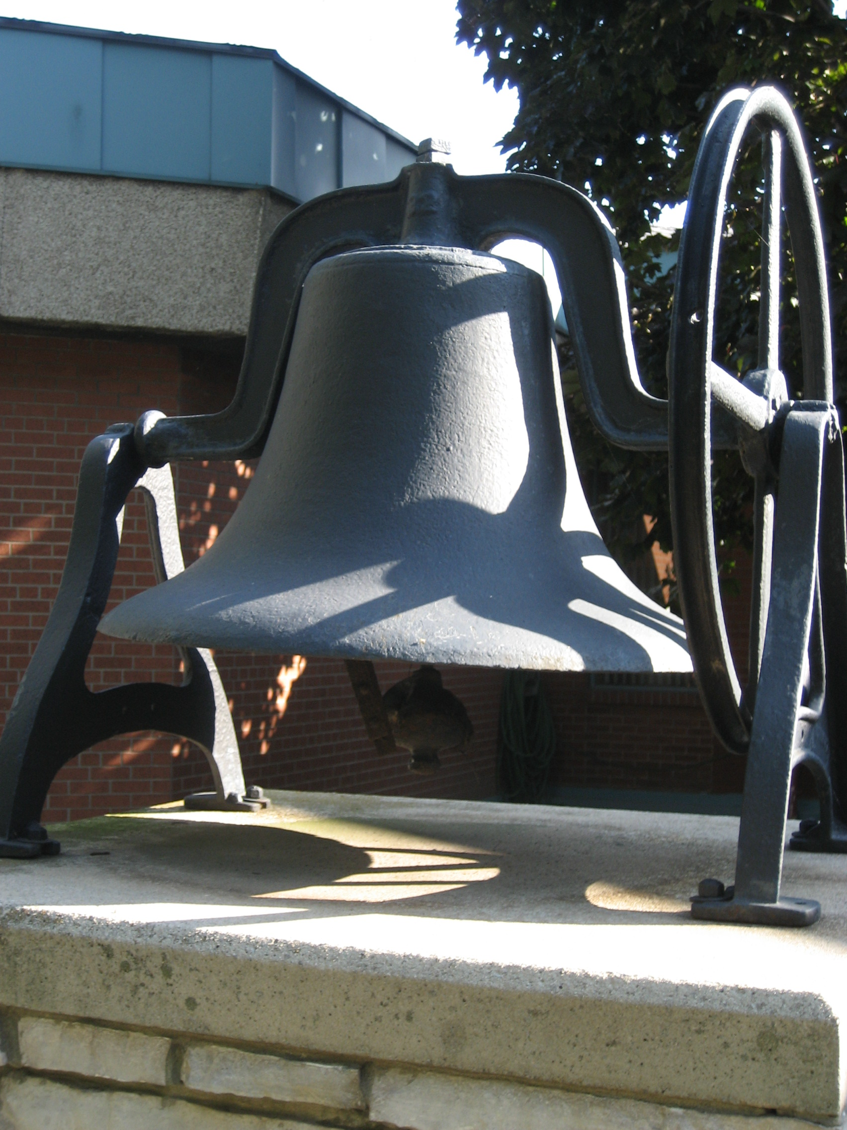 Bell Cairn (school bell), original site of the Beach Bangalow & Bell Cairn Schools, Beach Boulevard, Hamilton, Canada.